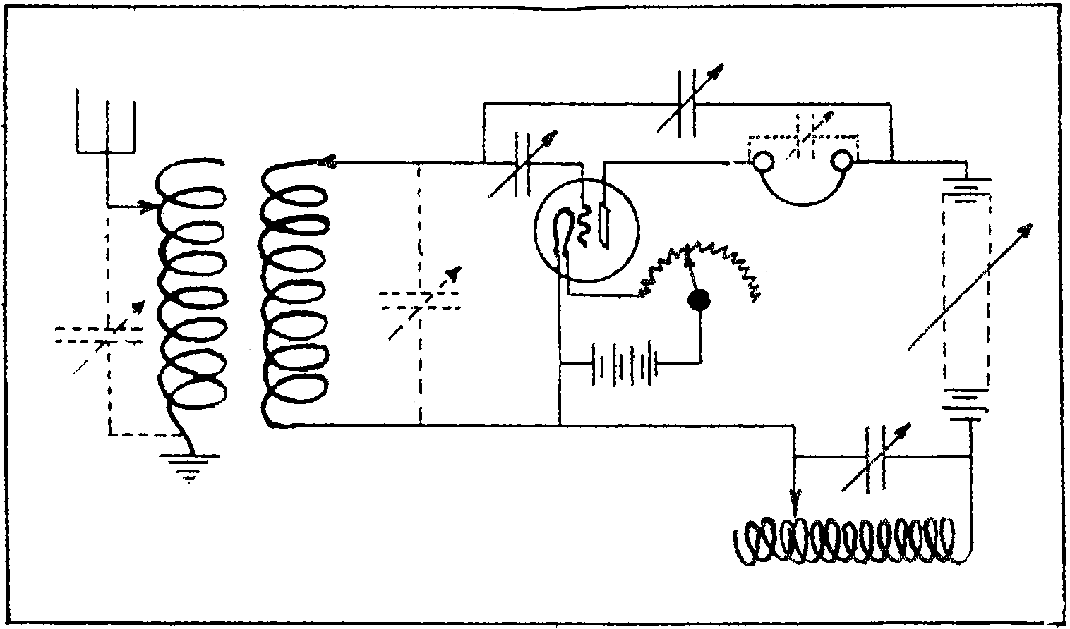 Schematic of a receiving set owned by Mr. Roy C. Ehrhardt of Scranton, Pa.